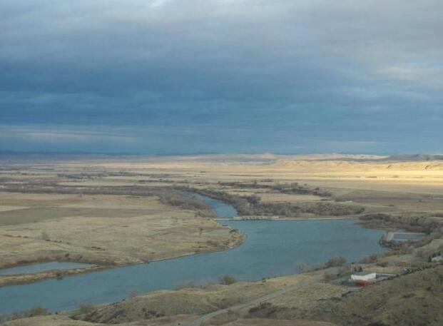 Mixed Great Plains grass prarie near Fort Smith - Montana